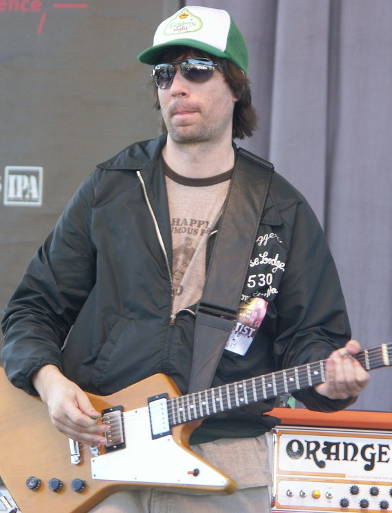 Musician Todd Fancey plays with the group The New Pornographers at the Slow Food Rocks Festival held in Fort Mason in San Francisco, CA. The picture was taken on August 30, 2008 by staxnet. This image is a cropped and slightly retouched version of the original picture